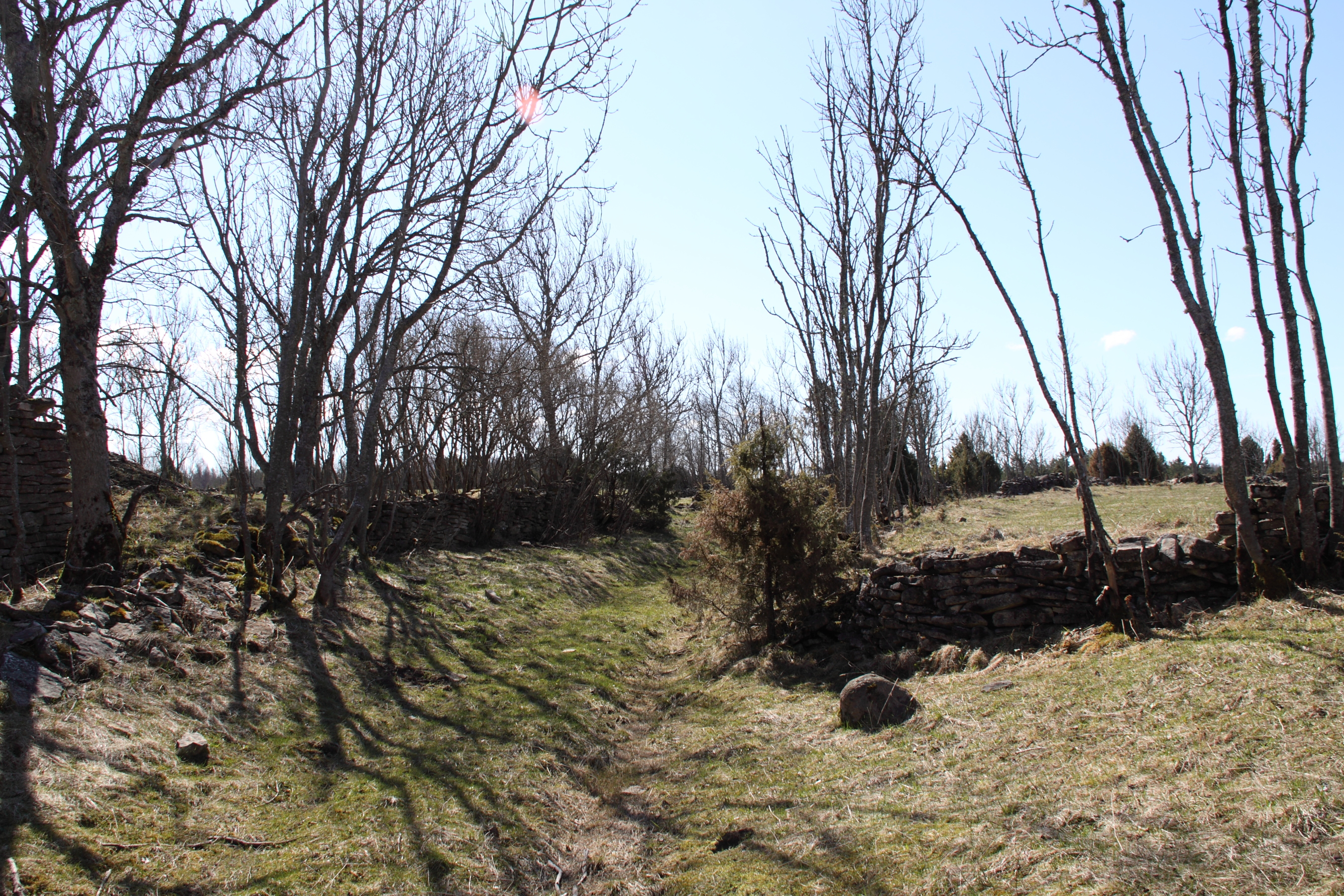 A road in Kurese between stone fences. The limestone road used to be naturally paved on its heyday while the garden inside the fence gathered impressive cultural layer and is thicker.